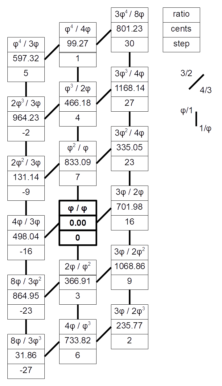 833 cents scale lattice/array to 4 and -3.